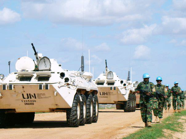 Patrol at UN Msn